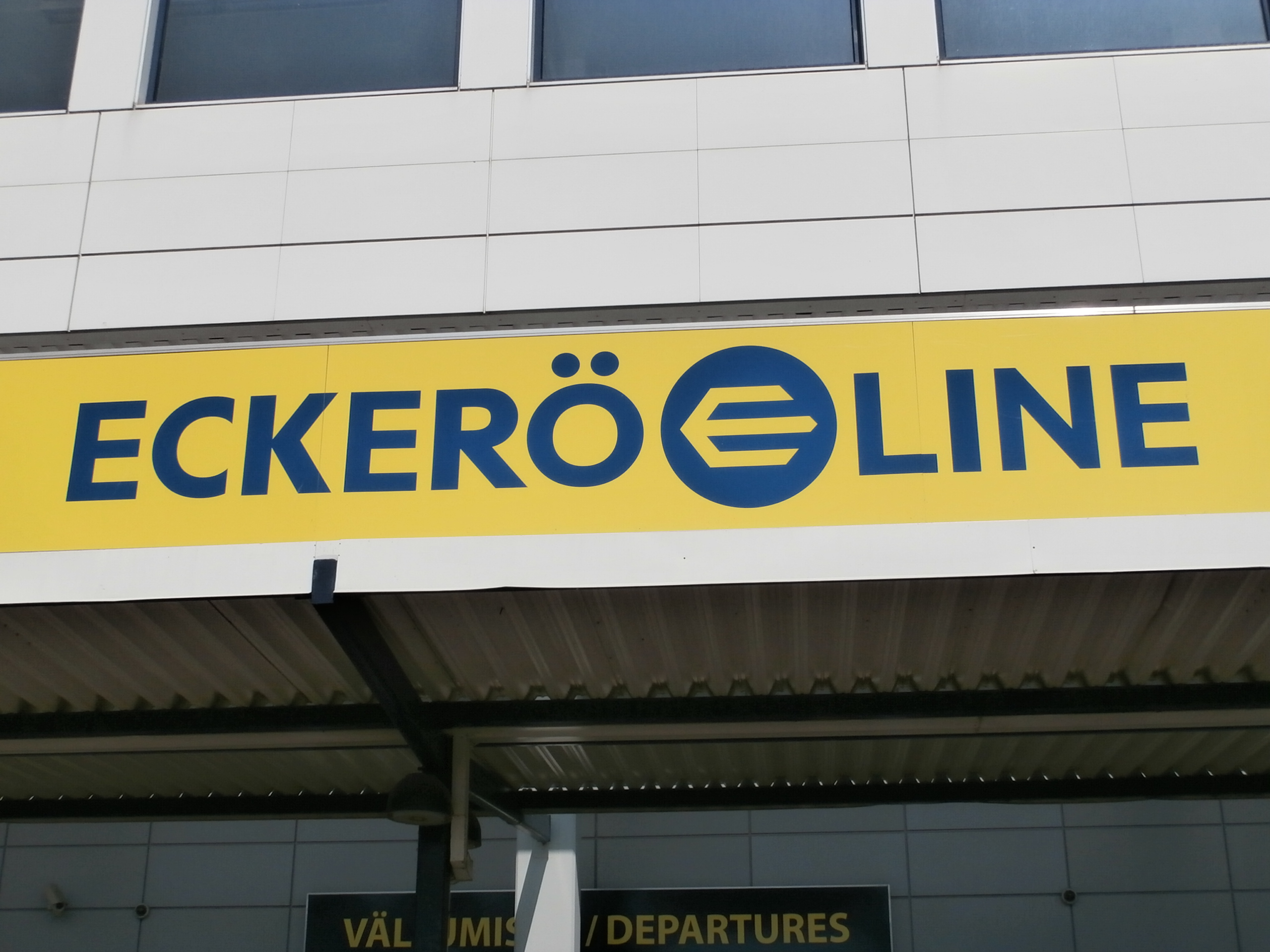 Eckero' Line Signboard on the Passenger Terminal A Tallinn 9 July 2013